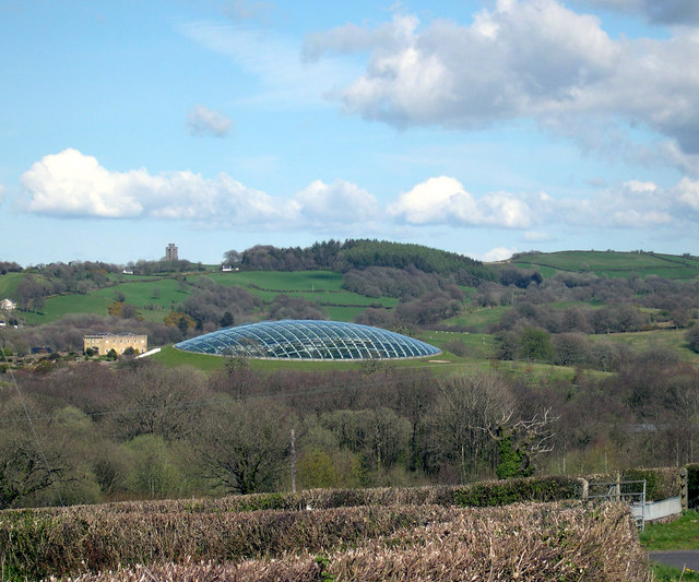 National botanic garden of Wales and Paxtons Tower